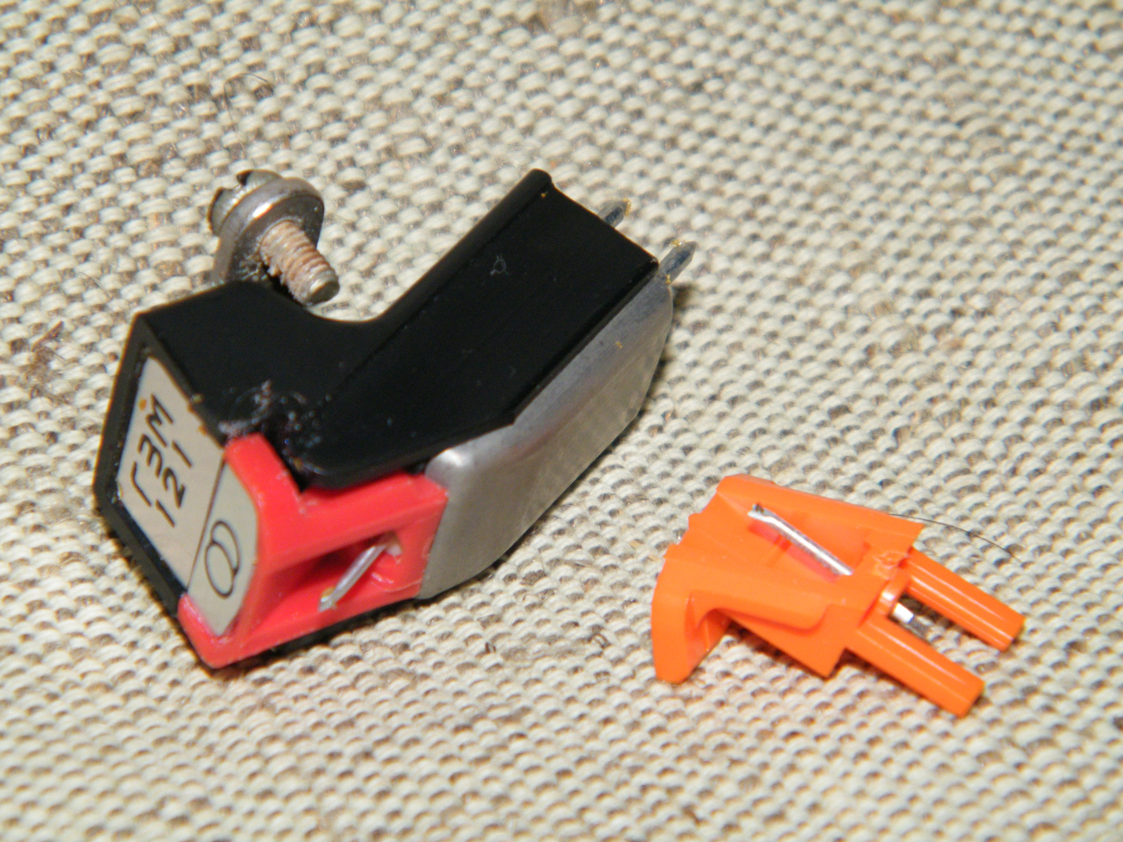 Головка электрофона ГЗМ-121, СССР, 1980-е годы.